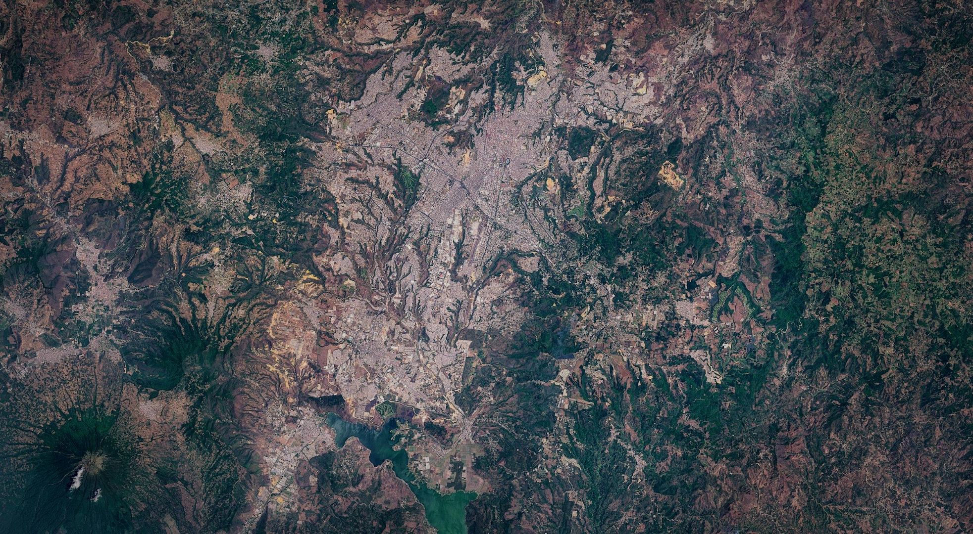 Guatemala City Metropolitan Area Satellite view